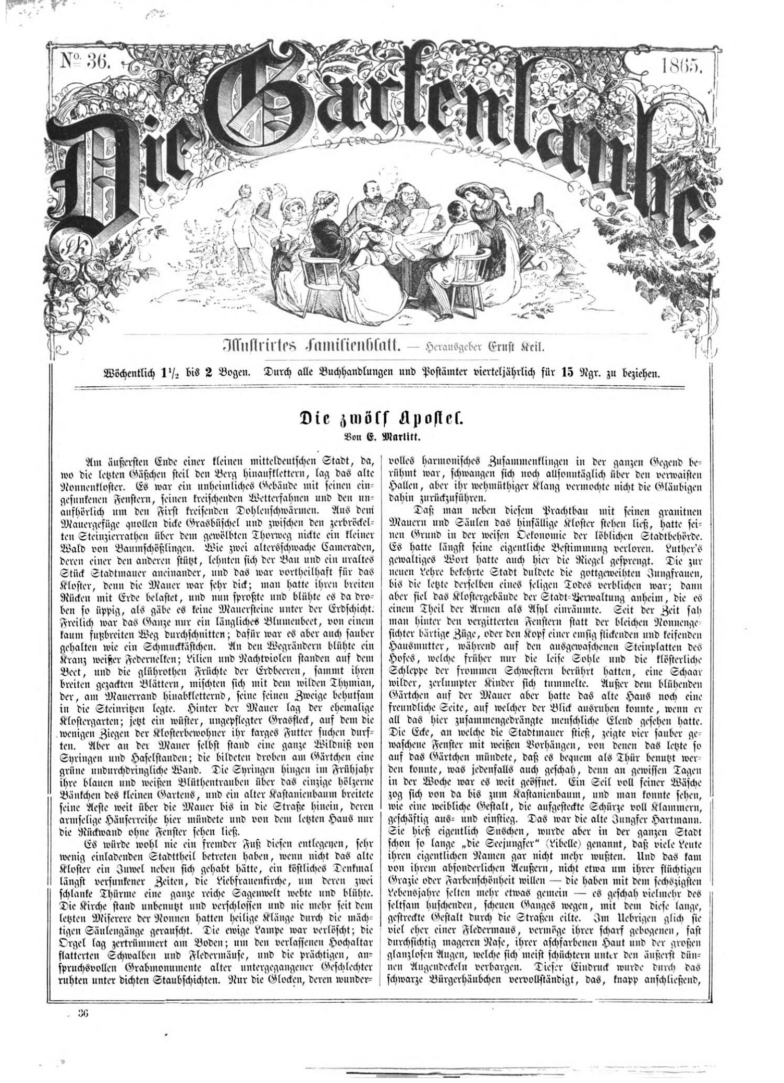 no caption